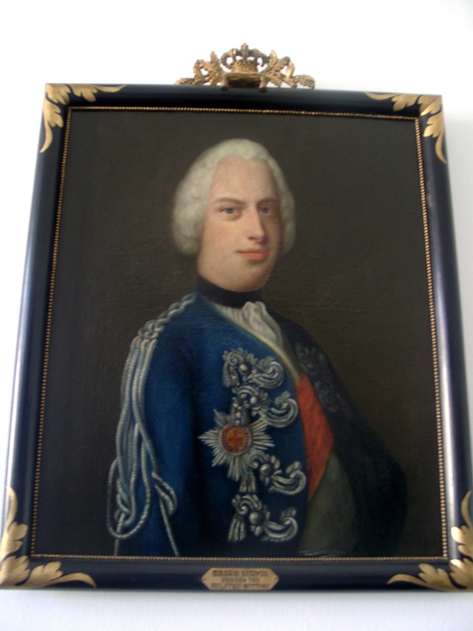 Portrait of Prince Georg Ludwig of Holstein-Gottorp (1719-1763) This picture has been placed in the public domain in honor of Michael Hart, founder of Project Gutenberg. 8 September 2011.